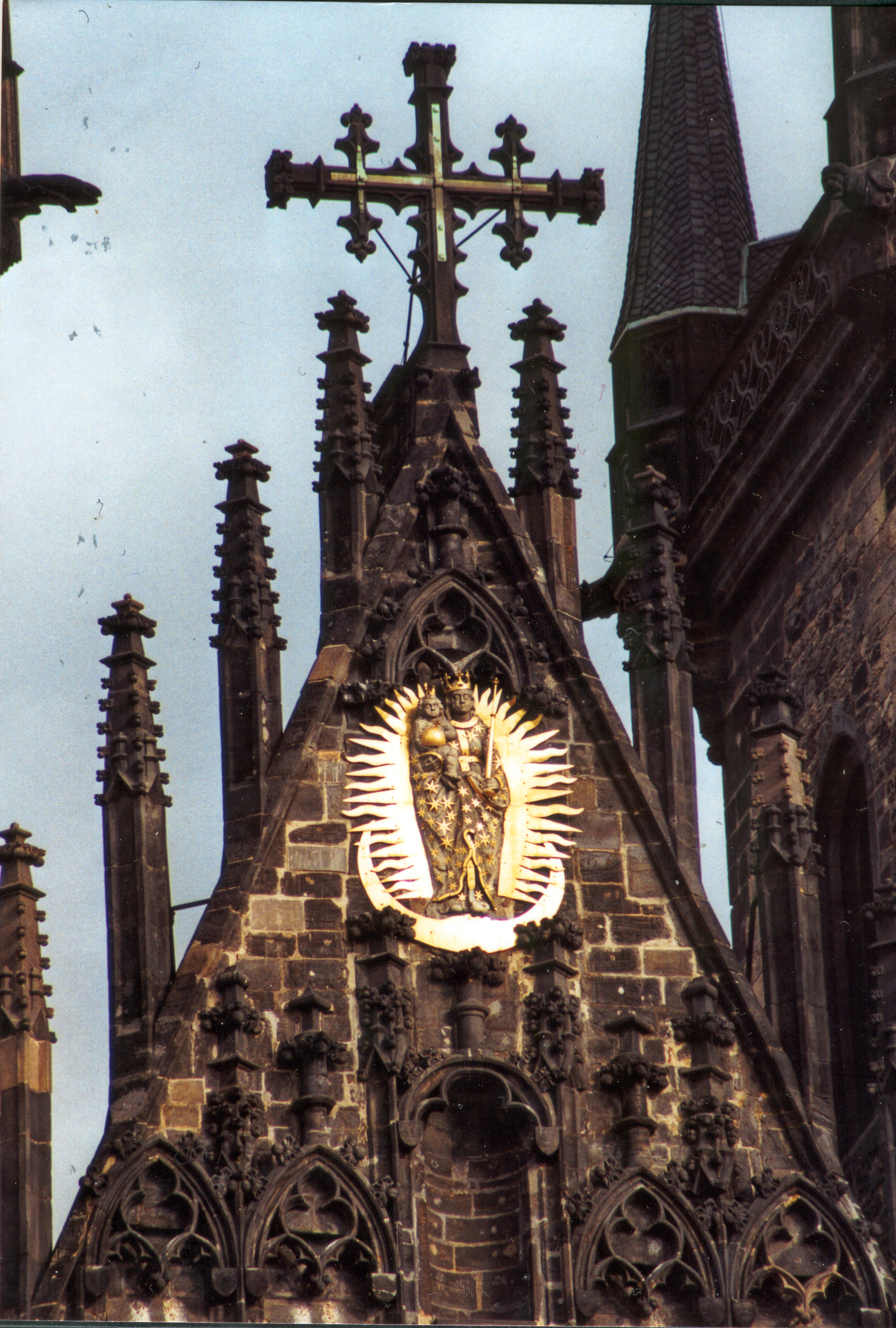 Praha Tyn Church Madonna With Child Where The Protestant Chalice Used To Be